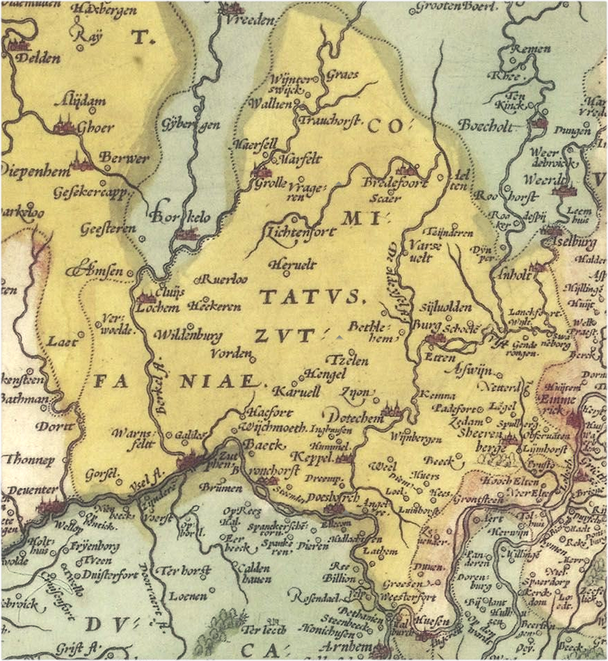 county of zutphen, part of a bigger map, Gelriae, Cliviae, finitimorvmqve locorvm verissima descriptio